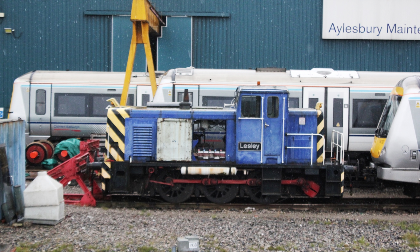 Ruston & Hornsby 0-6-0 diesel-hydraulic locomotive 468043 was built in 1963. It is used for shunting trains at Chiltern Railways' depot in Aylesbury and is registered on TOPS as 01509 to allow it to operate on Network Rail tracks.